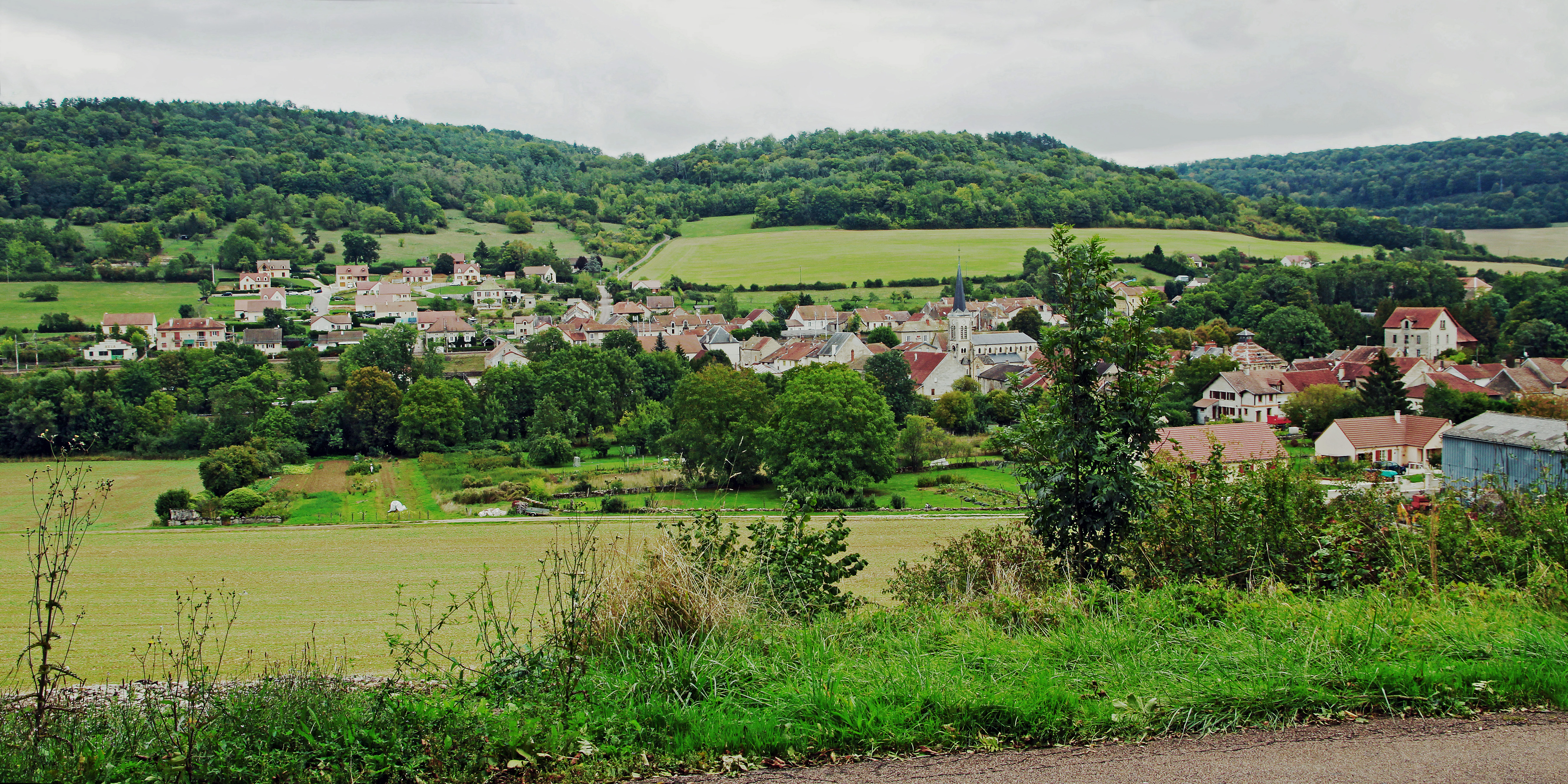 View of Verrey-sous-Salmaise from the road to Vitteaux